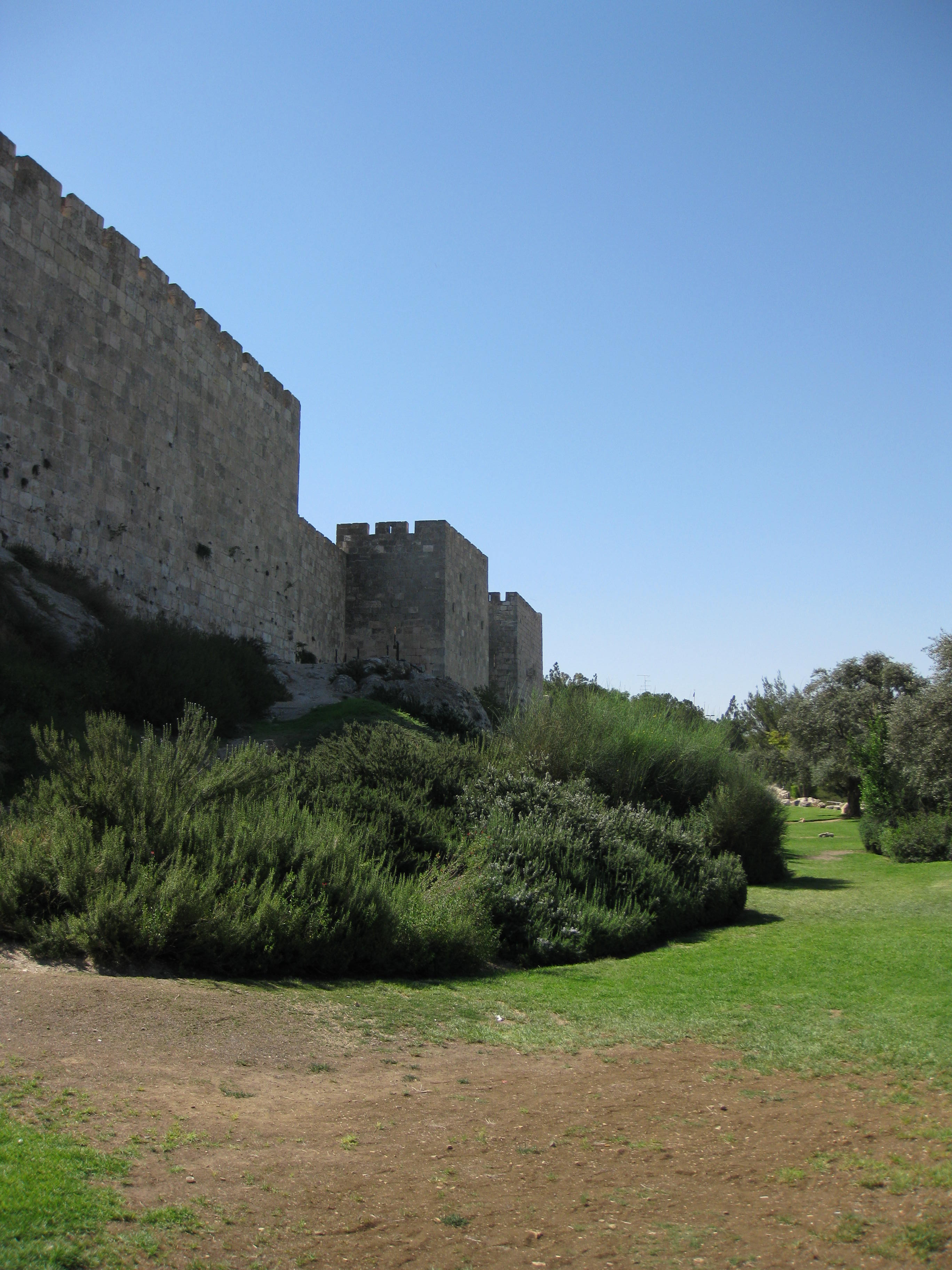 Western part of the Old City Walls of Jerusalem